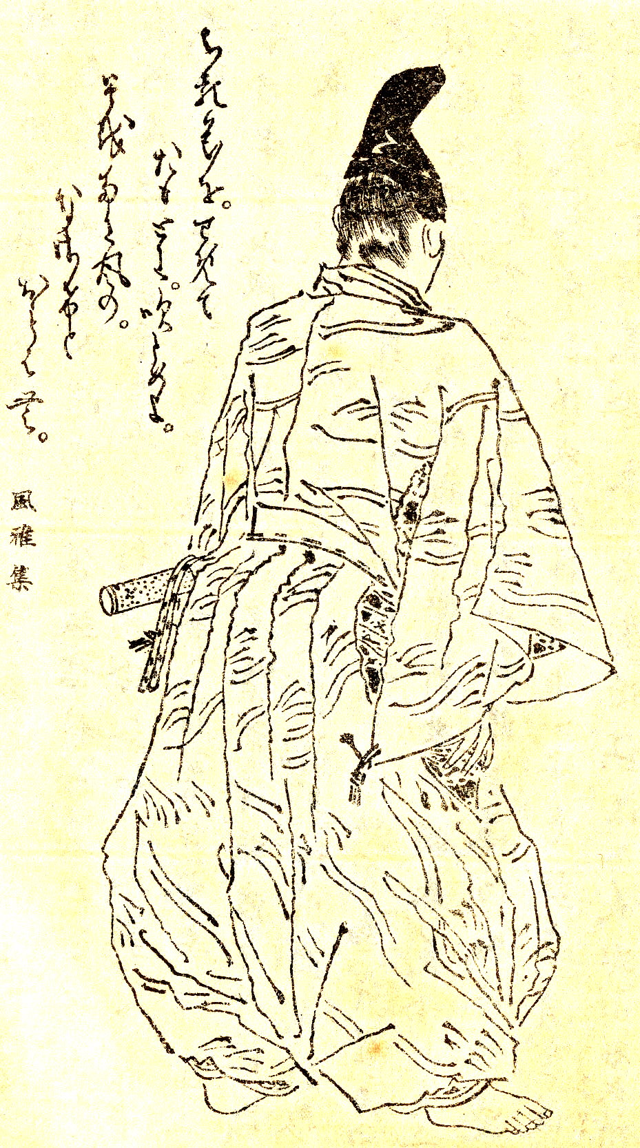 Imagawa Sadayo (今川 貞世), also known as Imagawa Ryōshun (今川了俊), was a renowned Japanese poet and military commander under the Ashikaga Bakufu from 1371 to 1395. This picture was drawn by Kikuchi Yosai（菊池容斎） who was a painter in Japan.